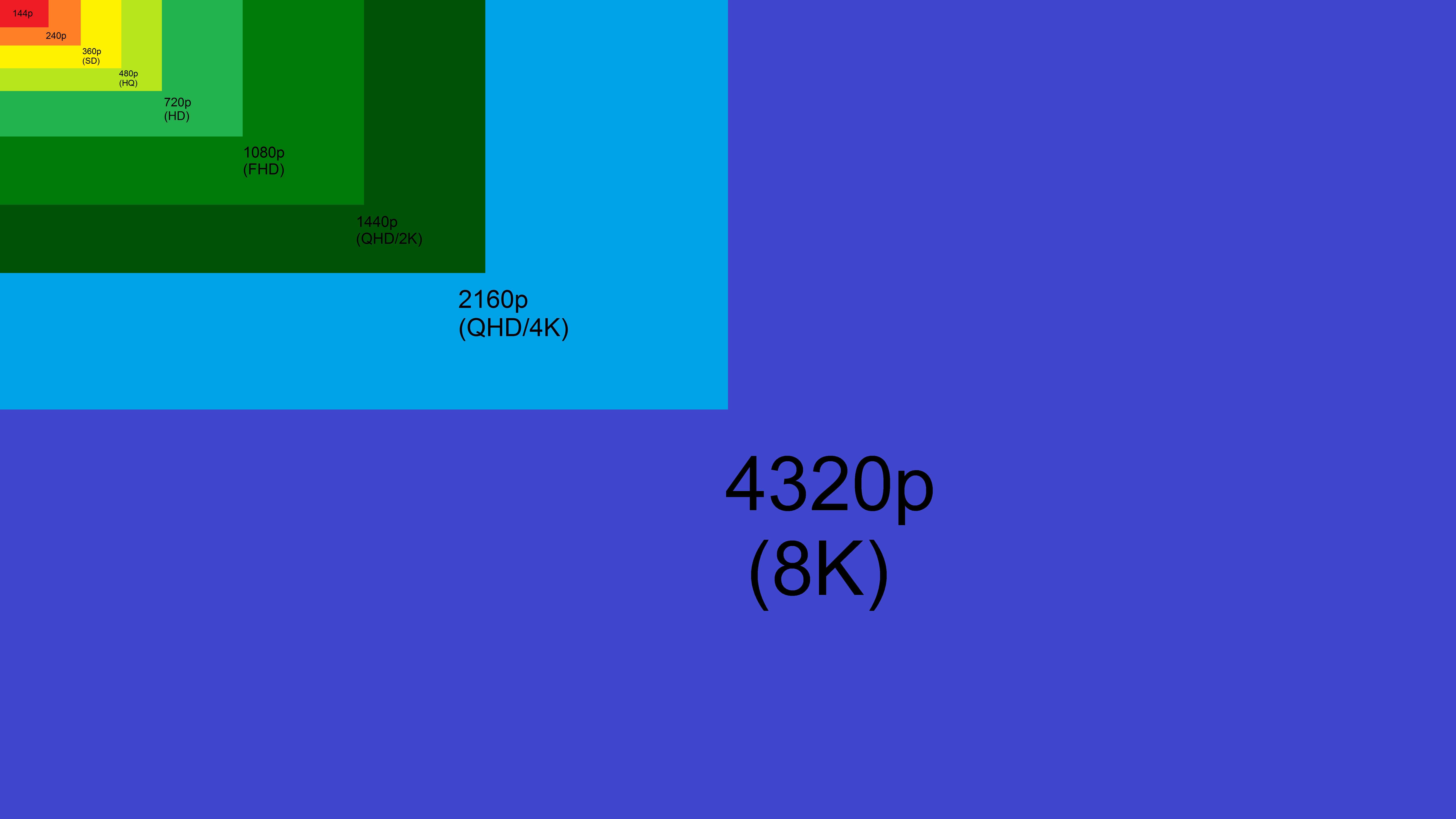 This is the column of all the resolutions below 8K.